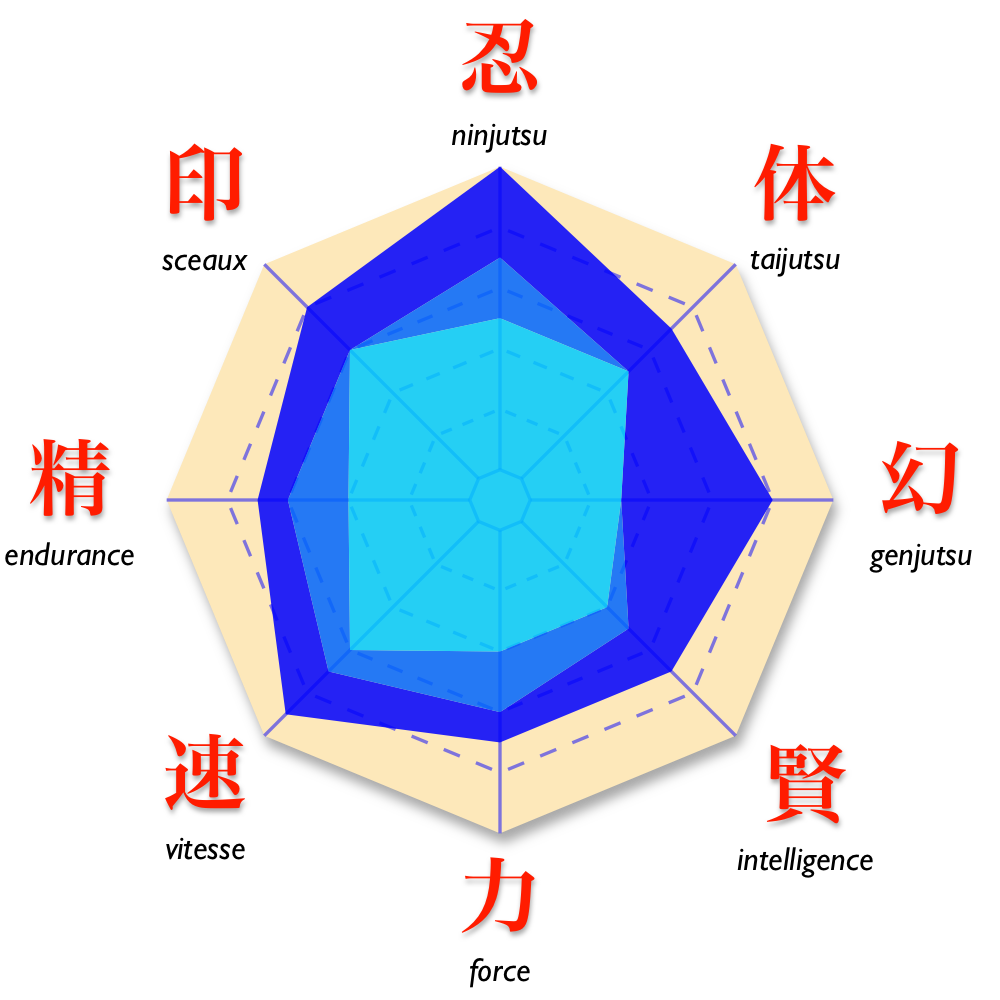 "Naruto" manga - Character "Sasuke" - Capabilities evolution diagram from Official Databooks data